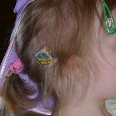 Post-surgery photo showing Bone Anchored Hearing Aid with children's stickers on it